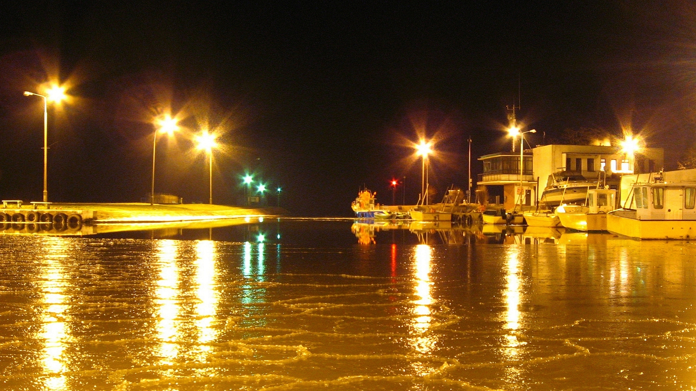 Harbor at night